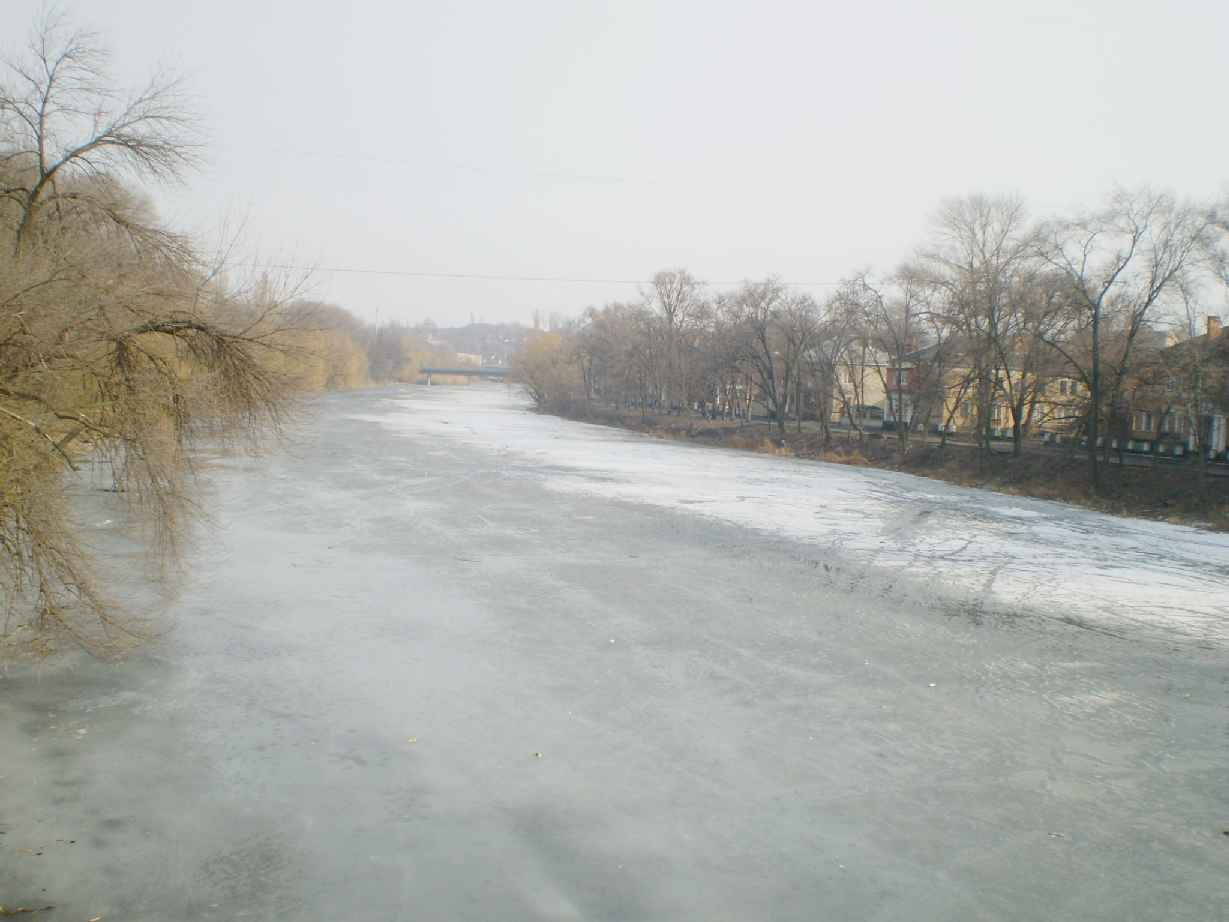 river Ingulets in Kryvy Rih